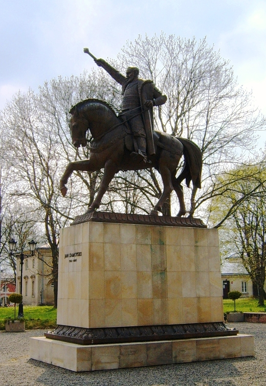 Jan Zamoyski monument in Zamość, Poland